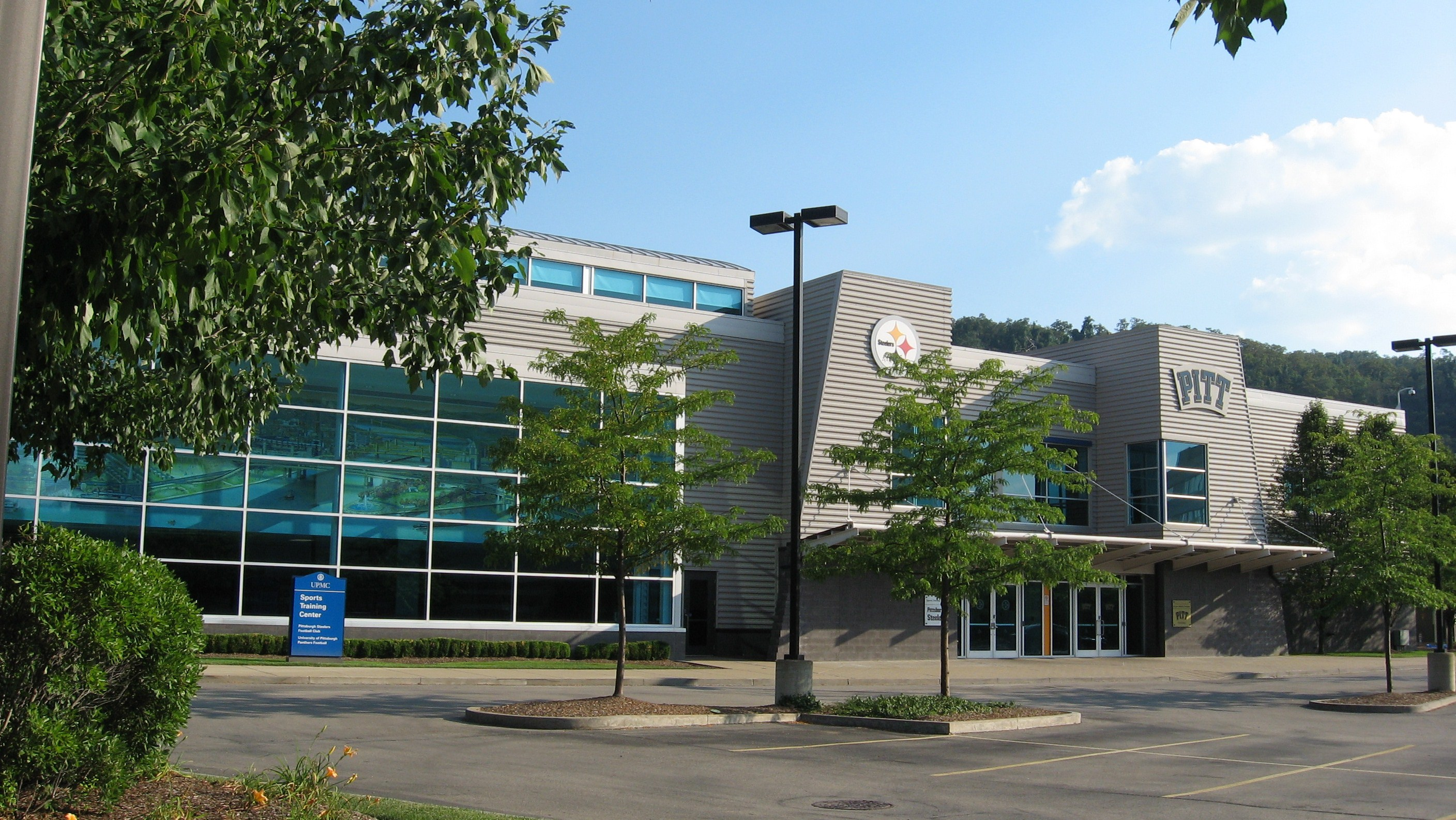 UPMC Sports Performance Complex, practice football field for the Pittsburgh Steelers and Pitt Panthers 40°25′29.3″N 79°57′35.5″W / 40.424806°N 79.959861°W